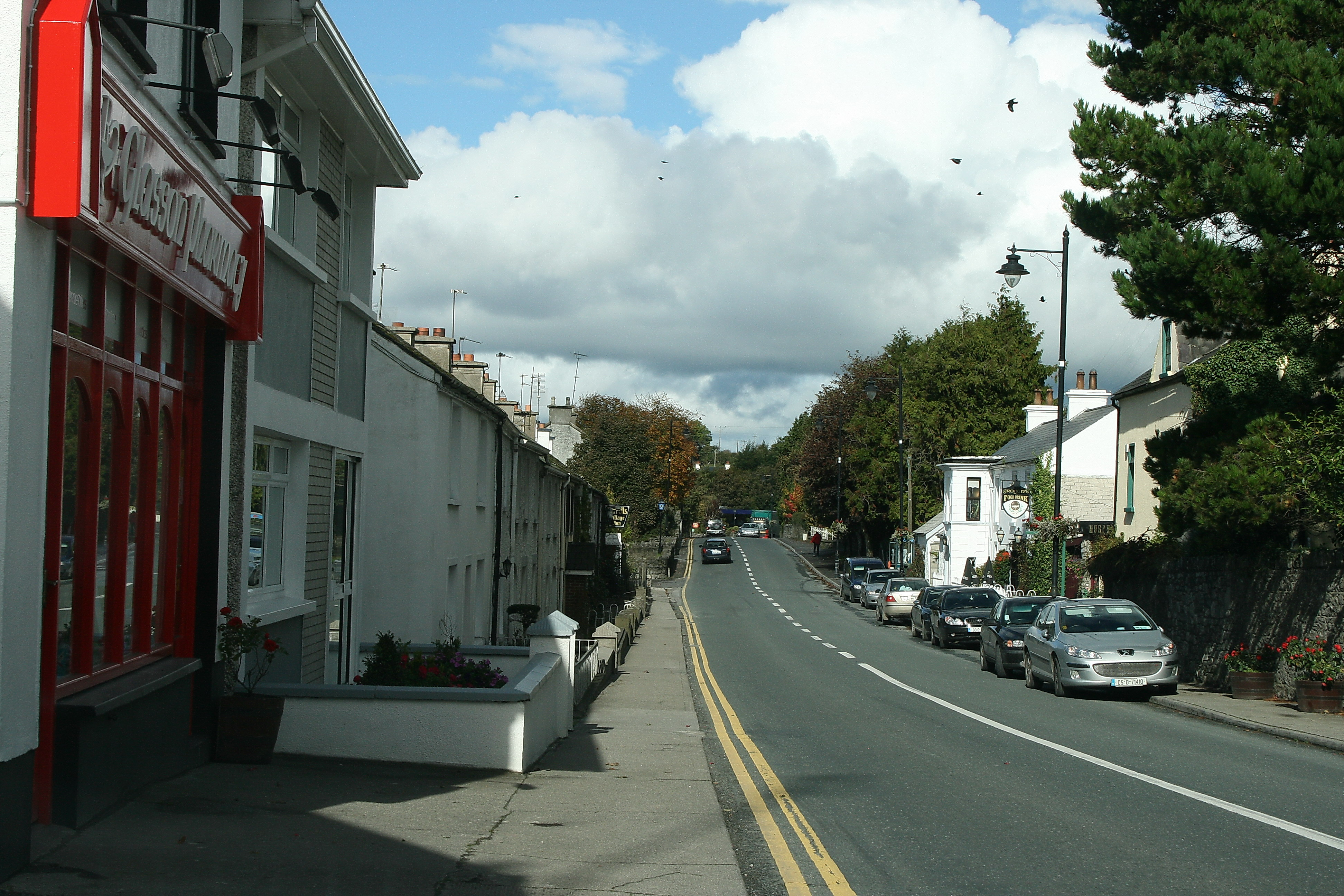 Glassan, County Westmeath, near to Glasan, Westmeath, Ireland. Main St.